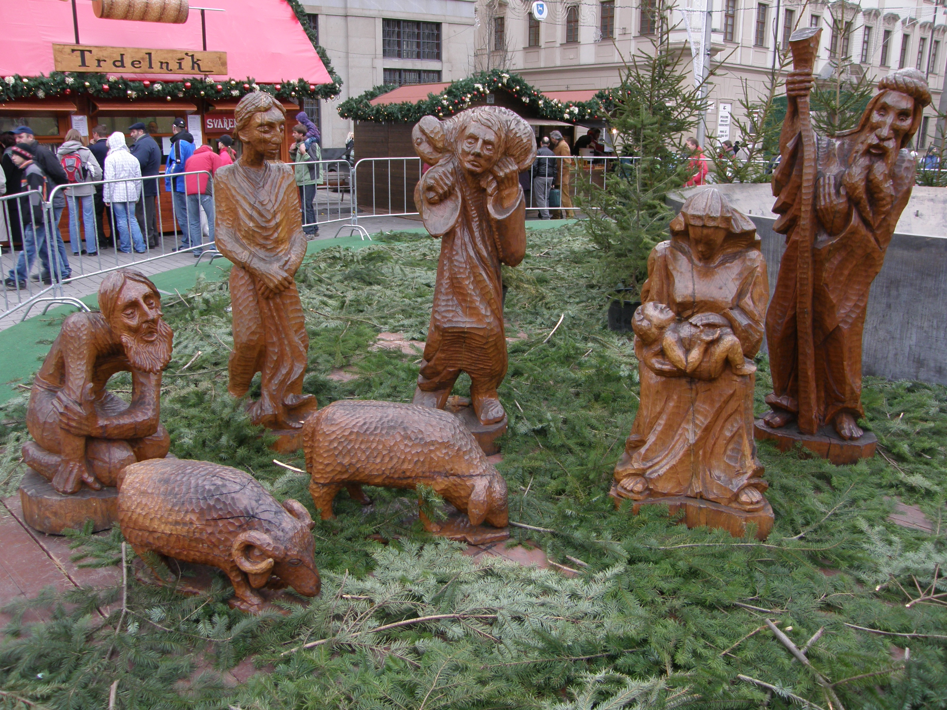 Nativity scene in Brno, Freedom Square. Autors: Václav Kysela, Aloiz Machaj, Miroslav Trnovský, Josef Bárta and František Spuchlák